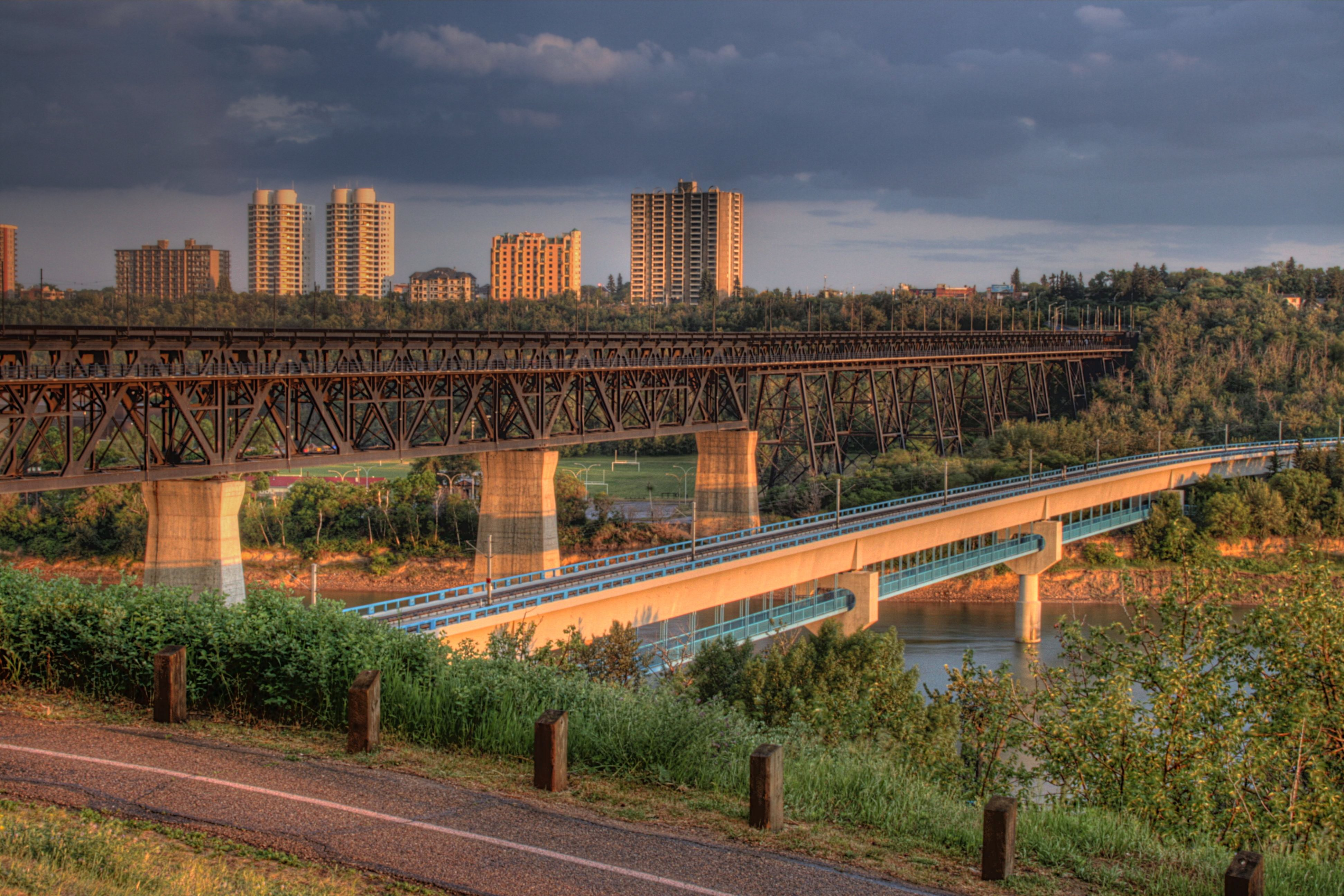 In the rear, the High Level Bridge across the North Saskatchewan River. In the front, the Light Rail Transit (LRT) and pedestrian bridge. Edmonton, Alberta, Canada.